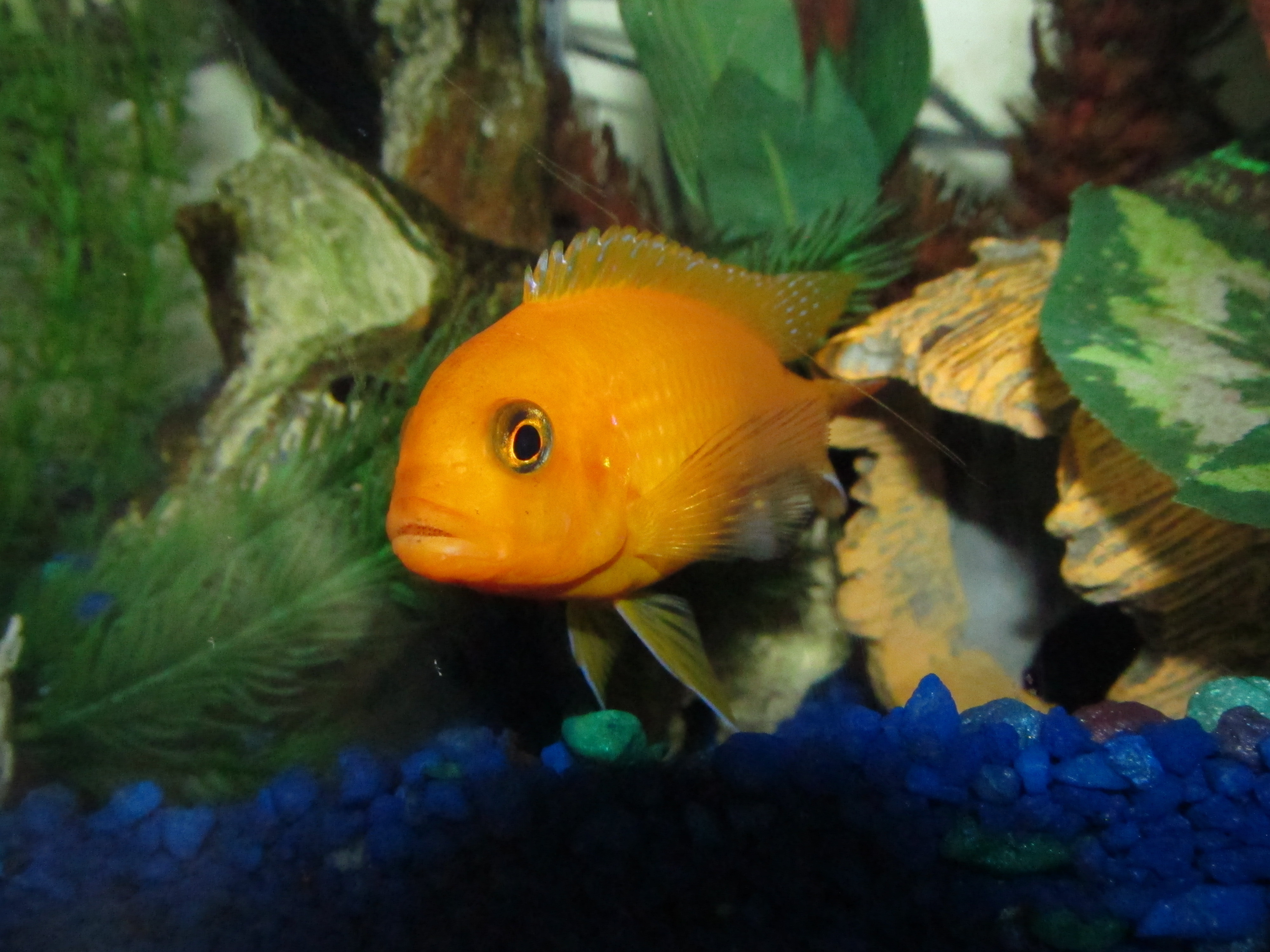 A male Red zebra cichlid, Maylandia estherae